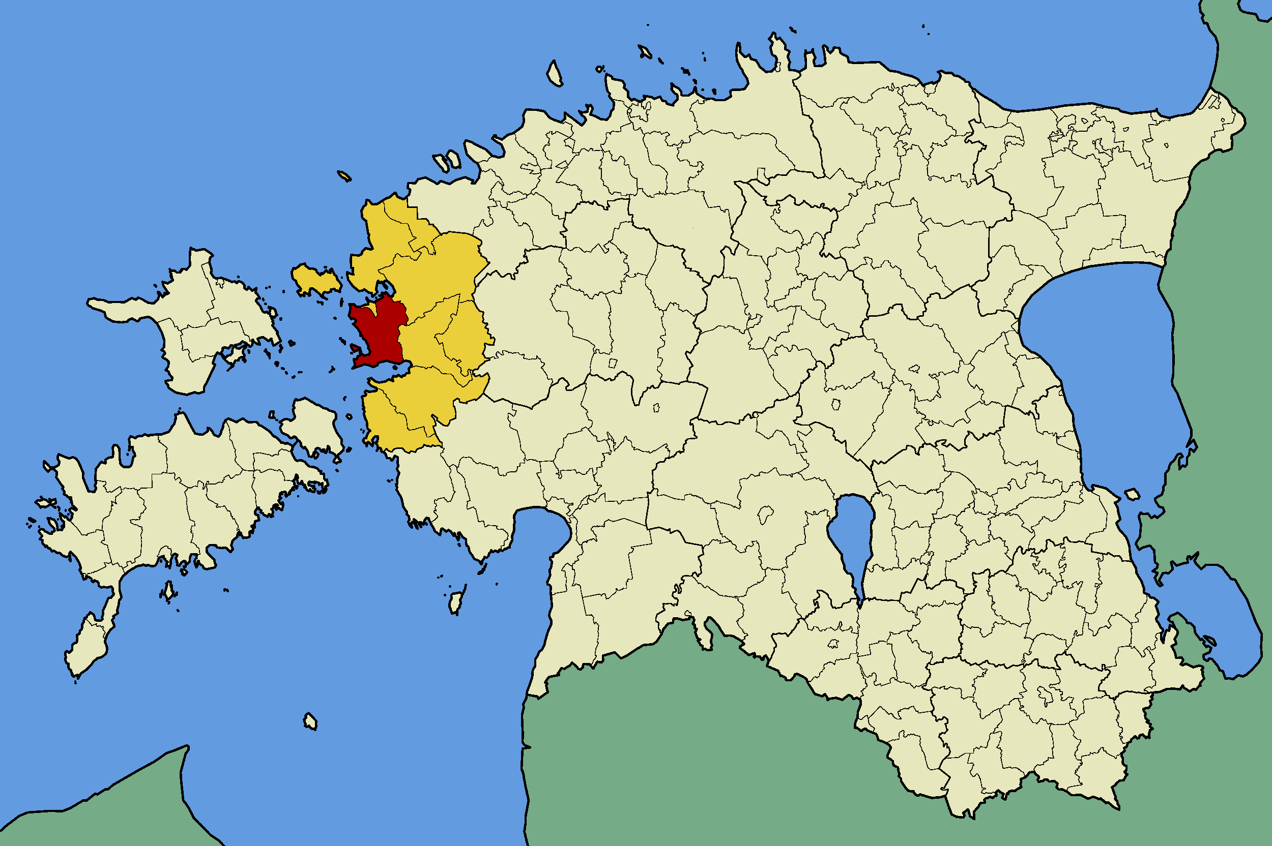 Map of Estonia with borders of municipalities (parishes). Lääne county and Ridala municipality emphasized.